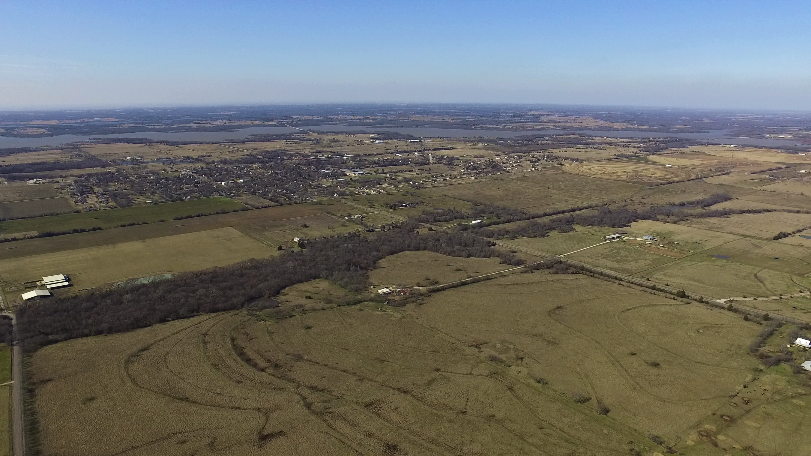 Picture of Tioga, Texas shot from the southeast side of town